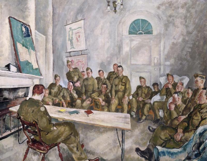 An Army Discussion Group image: the interior of a high-ceilinged room with a group of soldiers sitting facing an officer, who sits at a table with his back to the viewer in the foreground. There is a fire place to the left and a door in the far wall in the background.